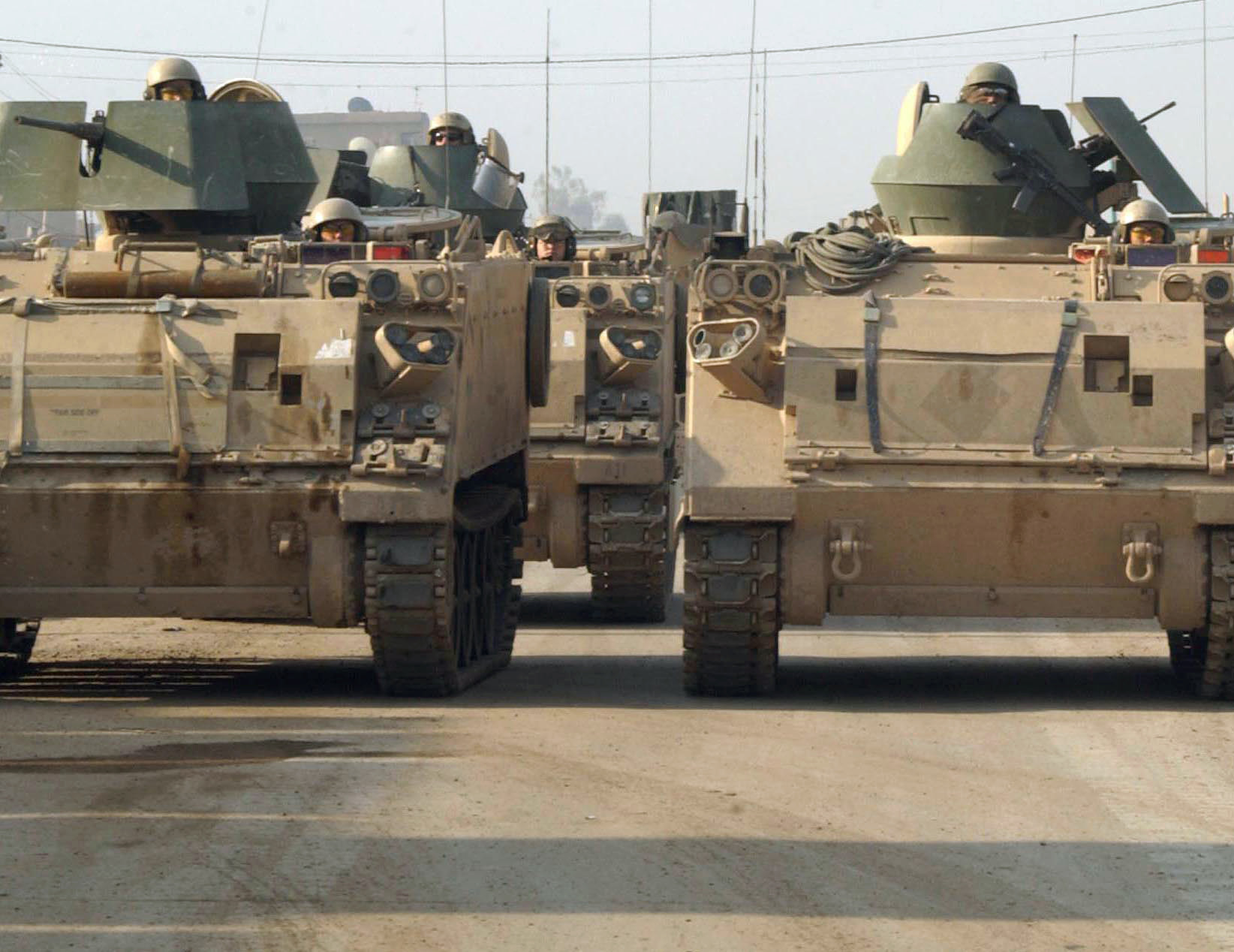 Soldiers from the 41st Infantry Regiment, 1st Armored Division, patrol the Sadr City section of Baghdad in their M113 Armored Personnel Carriers. While in Iraq, the regiment is attached to the 2nd Brigade, 10th Mountain Division.